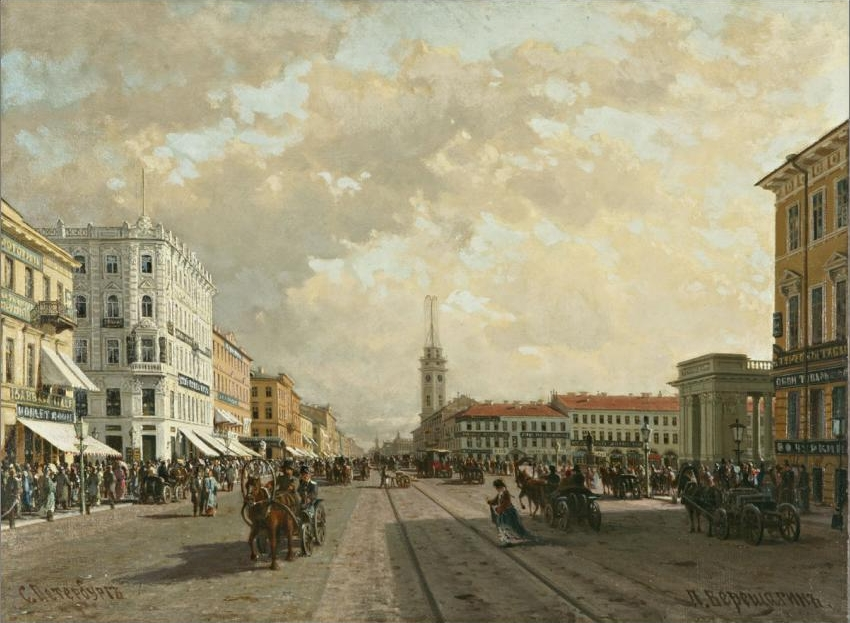 A view of Nevsky Prospekt in St Petersburg